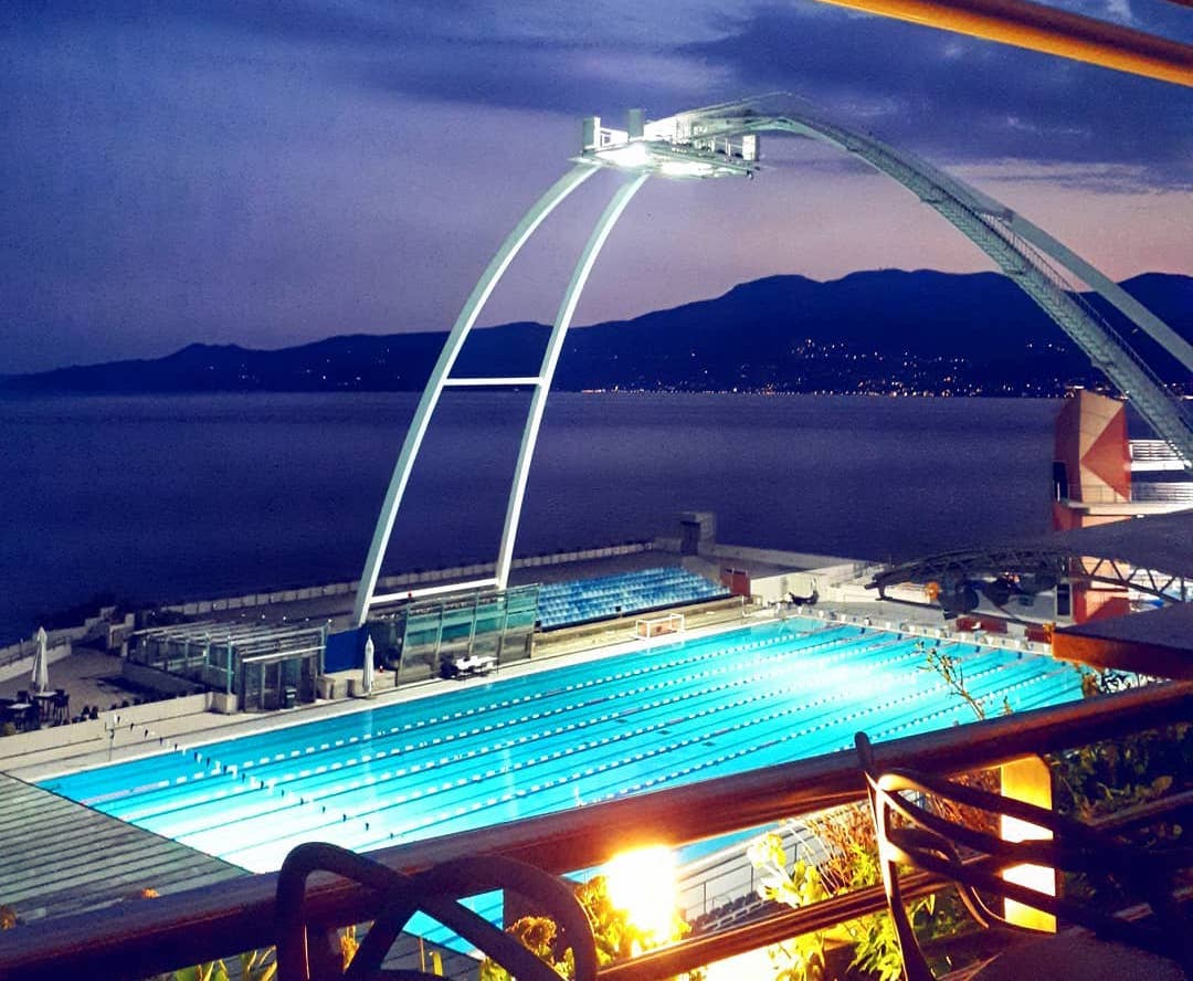 Famous Kantrida swimming pool